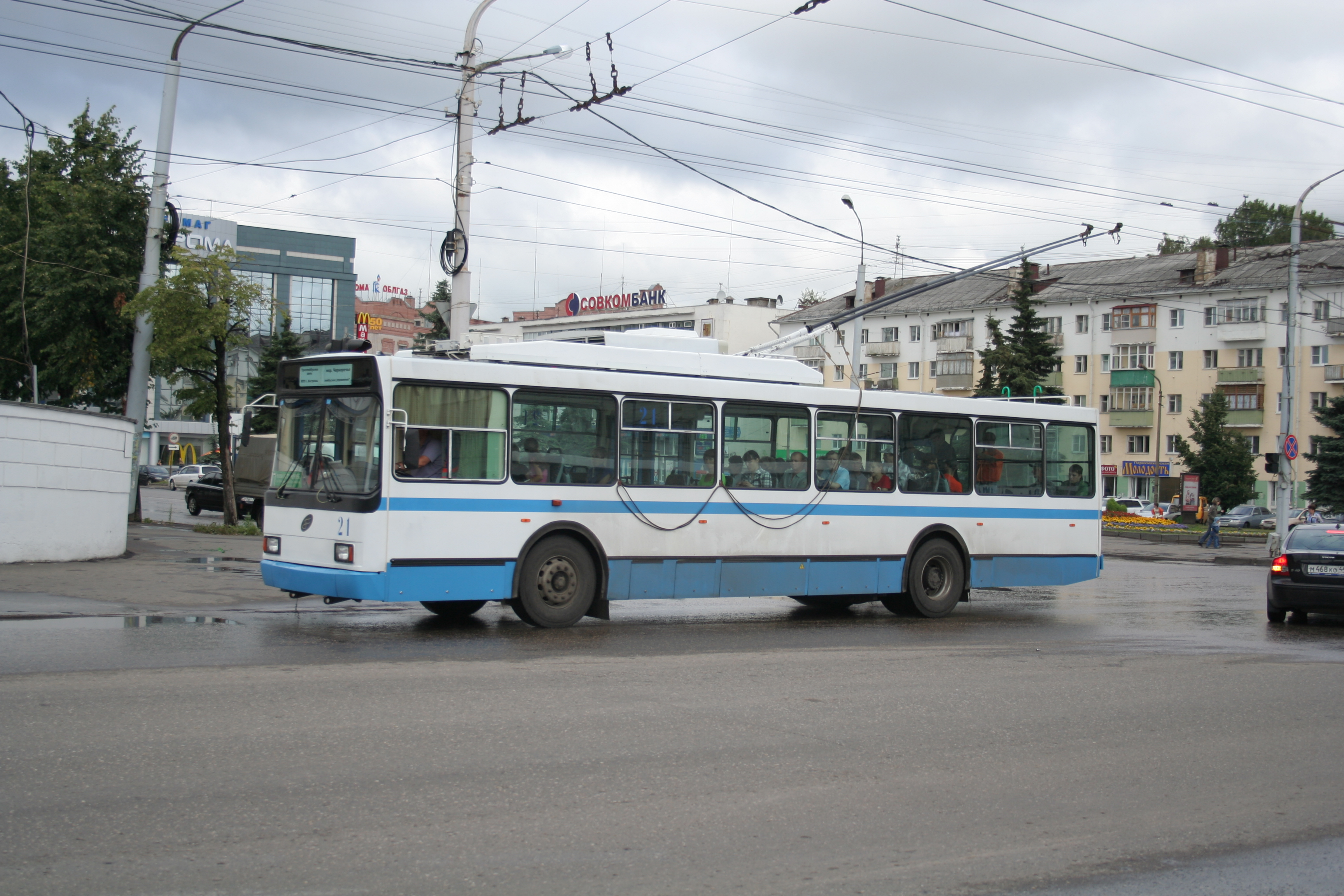 A trolley in Kostroma, Russia.